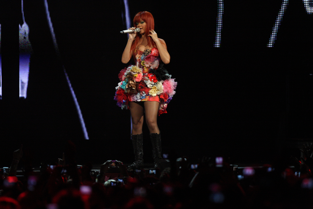 Rihanna performs at Sydney's Acer Arena on her Australian leg of the "Last Girl On Earth Tour"